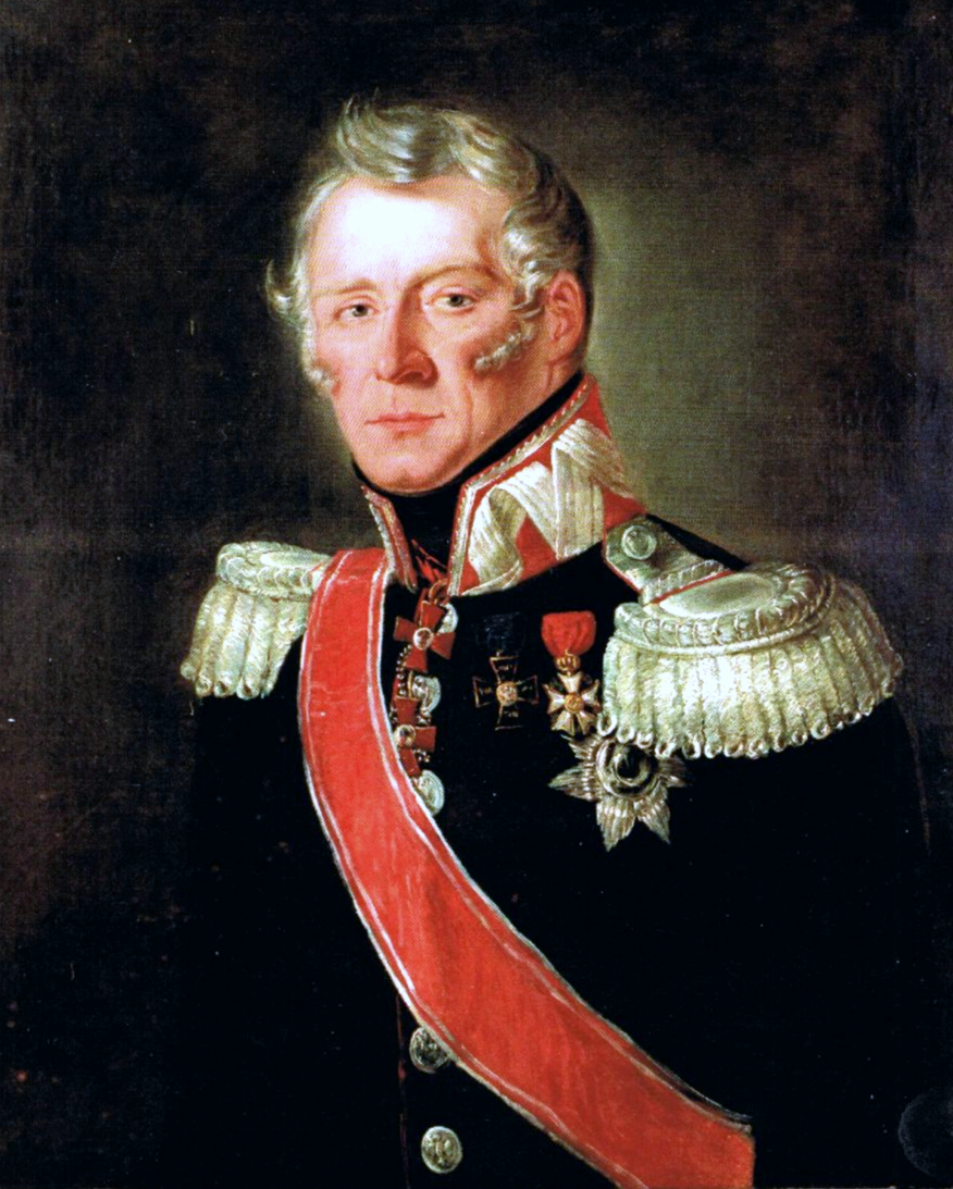 Portrait of Aleksander Rożniecki (1774-1849)